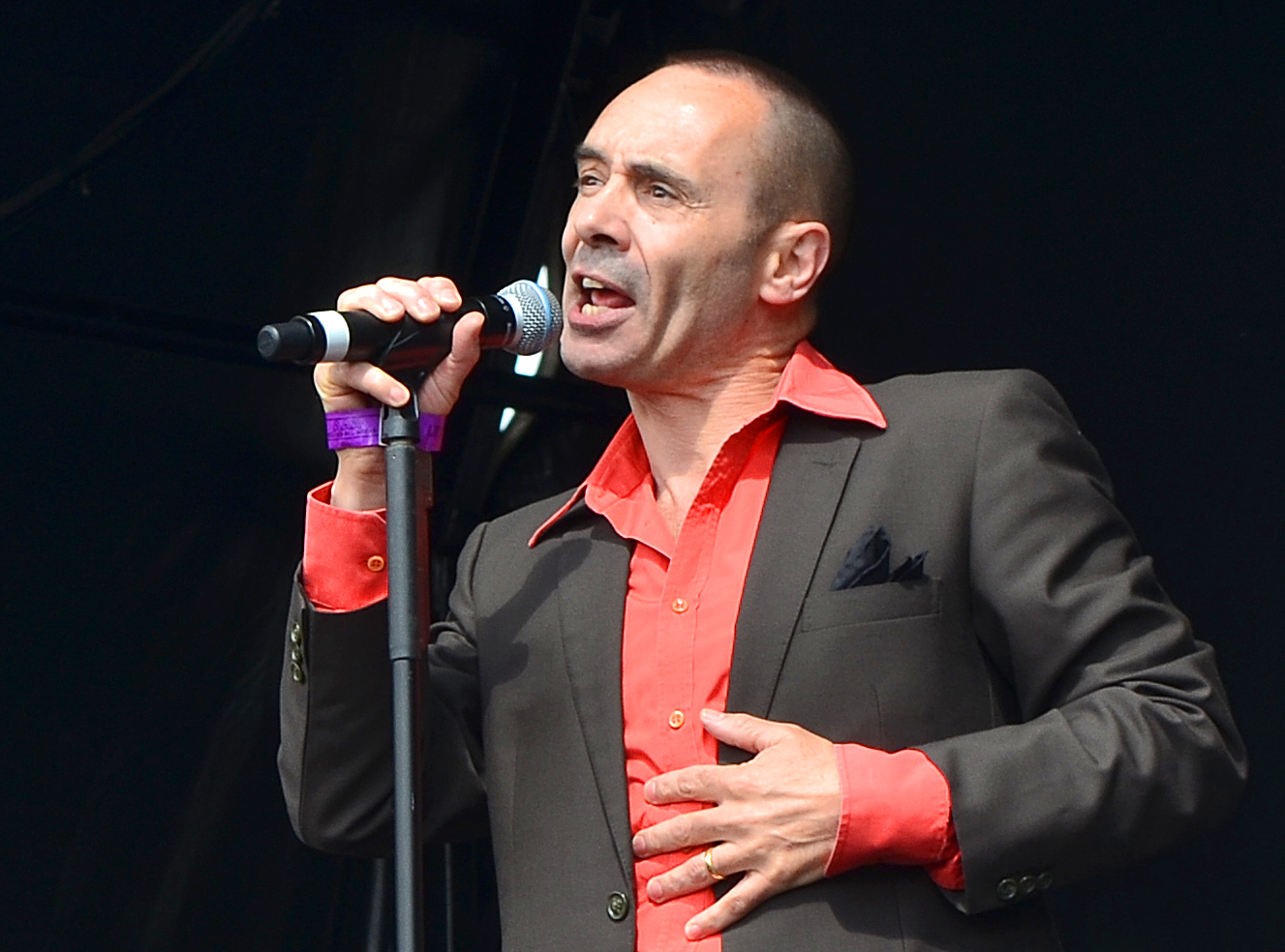 Mark Reilly, lead vocalist for Matt Bianco.